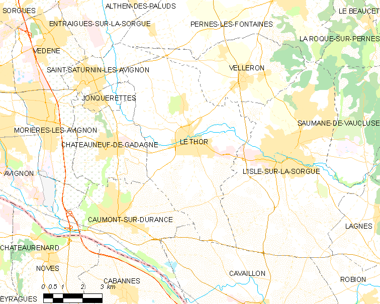 Map of French municipality Le Thor